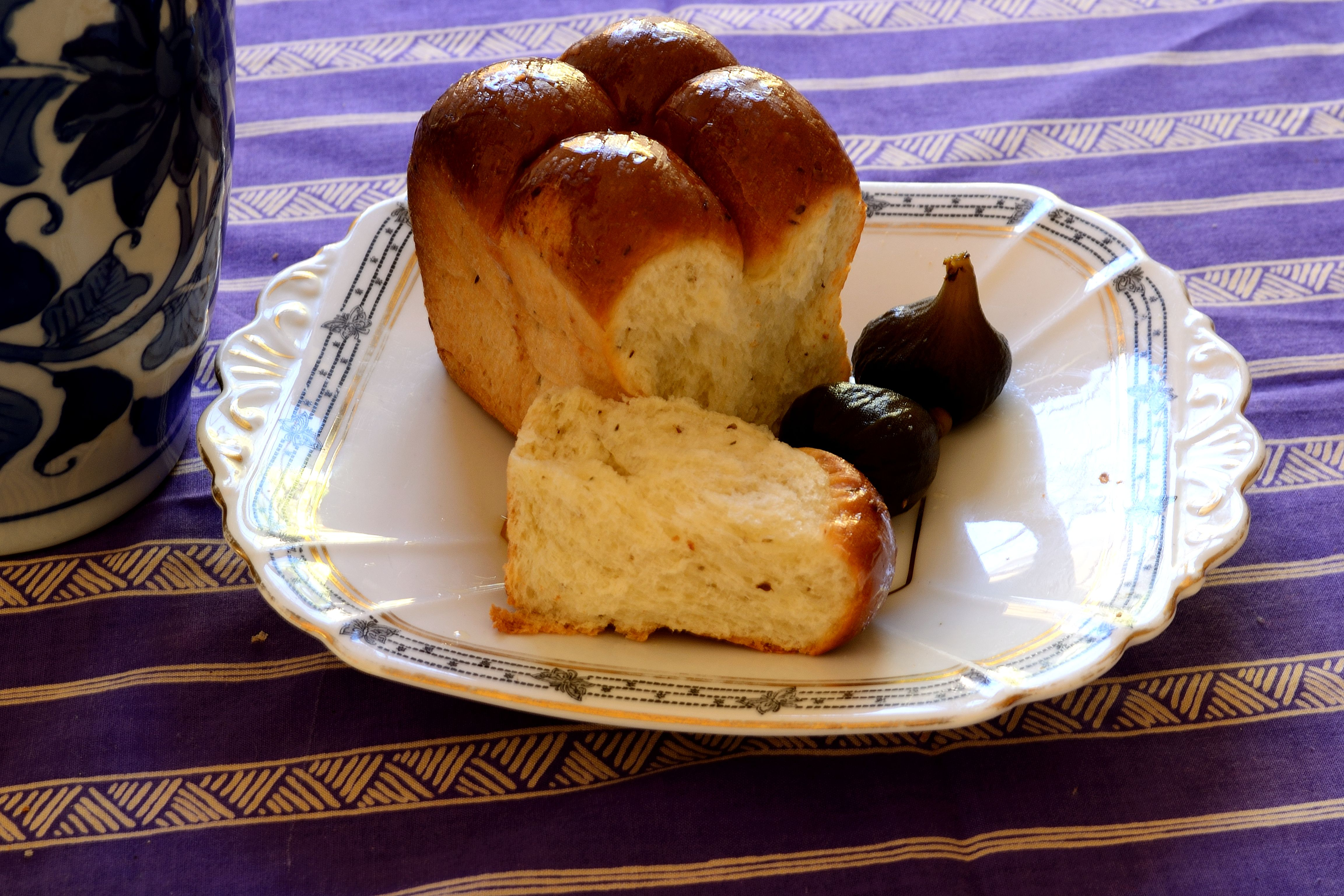 Mosbolletjies is sweetened , leavened yeast bun flavoured with caraway and or anise seed. Apparently they were introduced by the French Huguenots settlers. The name comes from the "mos" or fermenting grape must used as a raising agent along with yeast and because they are shaped like little balls, They can be dried to make rusks. This is an image of food from South Africa